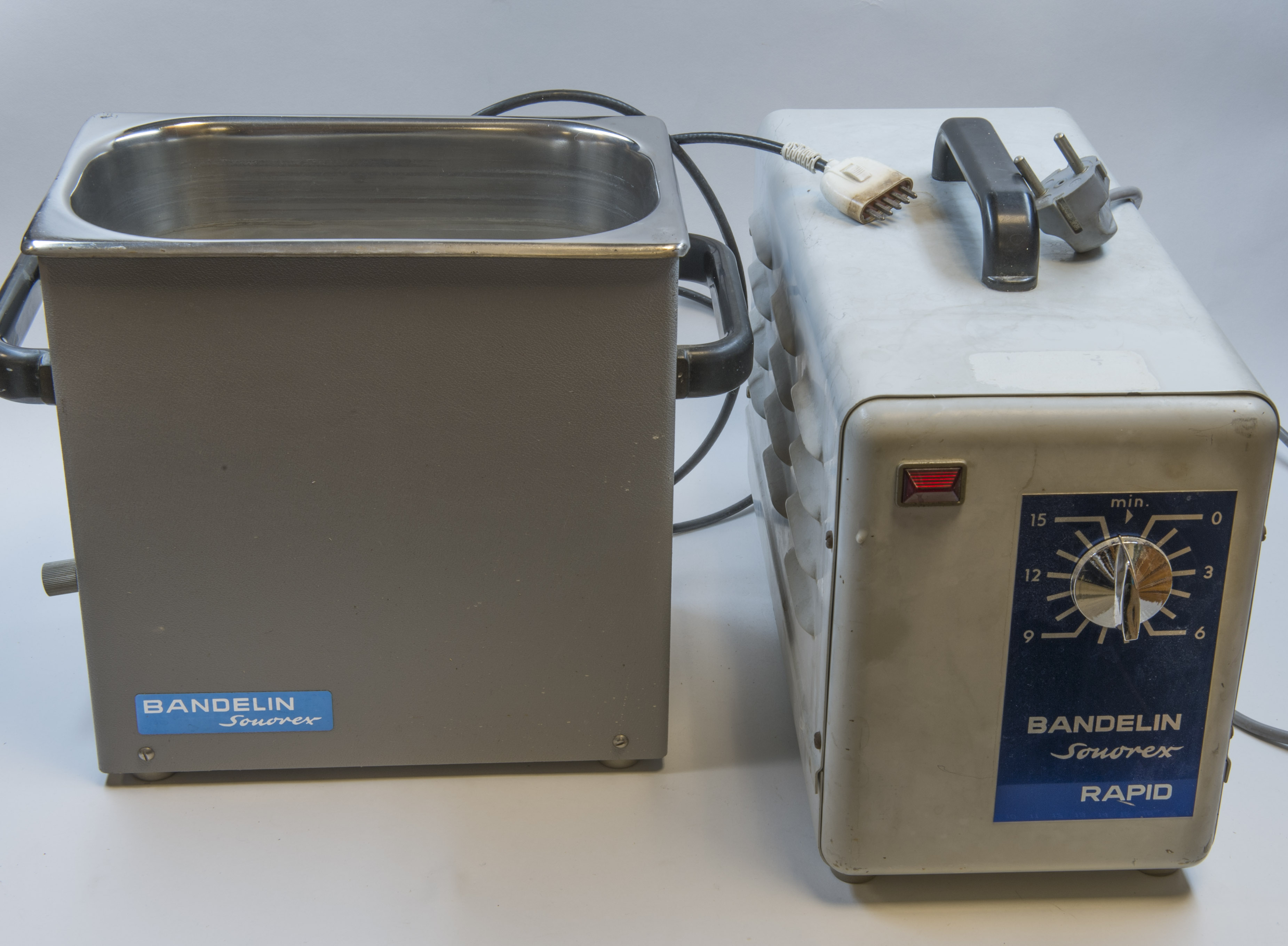 Ultrasonic device for cleaning, Model SONOREX, manufactured by Bandelin late 1970th/early1980th